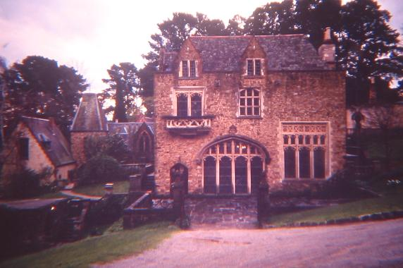 Buildings at the Montsalvat artists' colony, Eltham, Victoria.